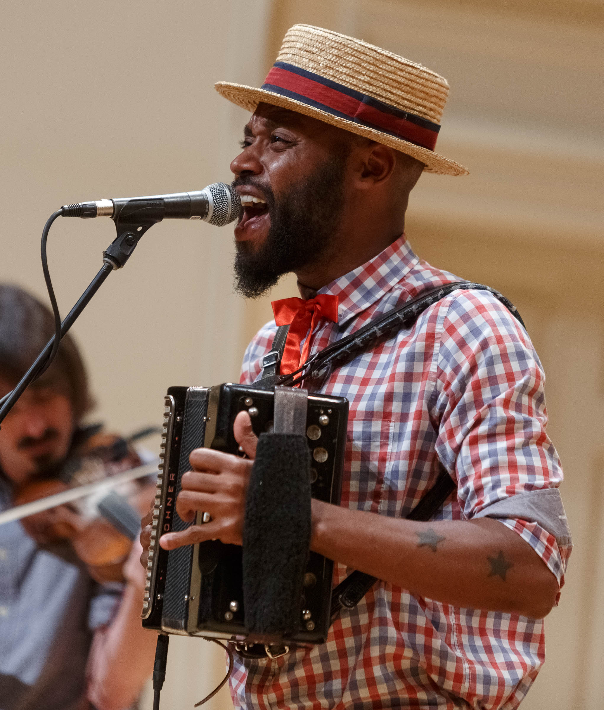 The Cedric Watson Trio brings Cajun, Creole and Zydeco music to the Coolidge Auditorium during a Homegrown Concert Series performance, July 25, 2019. Photo by Shawn Miller/Library of Congress. Note: Privacy and publicity rights for individuals depicted may apply.